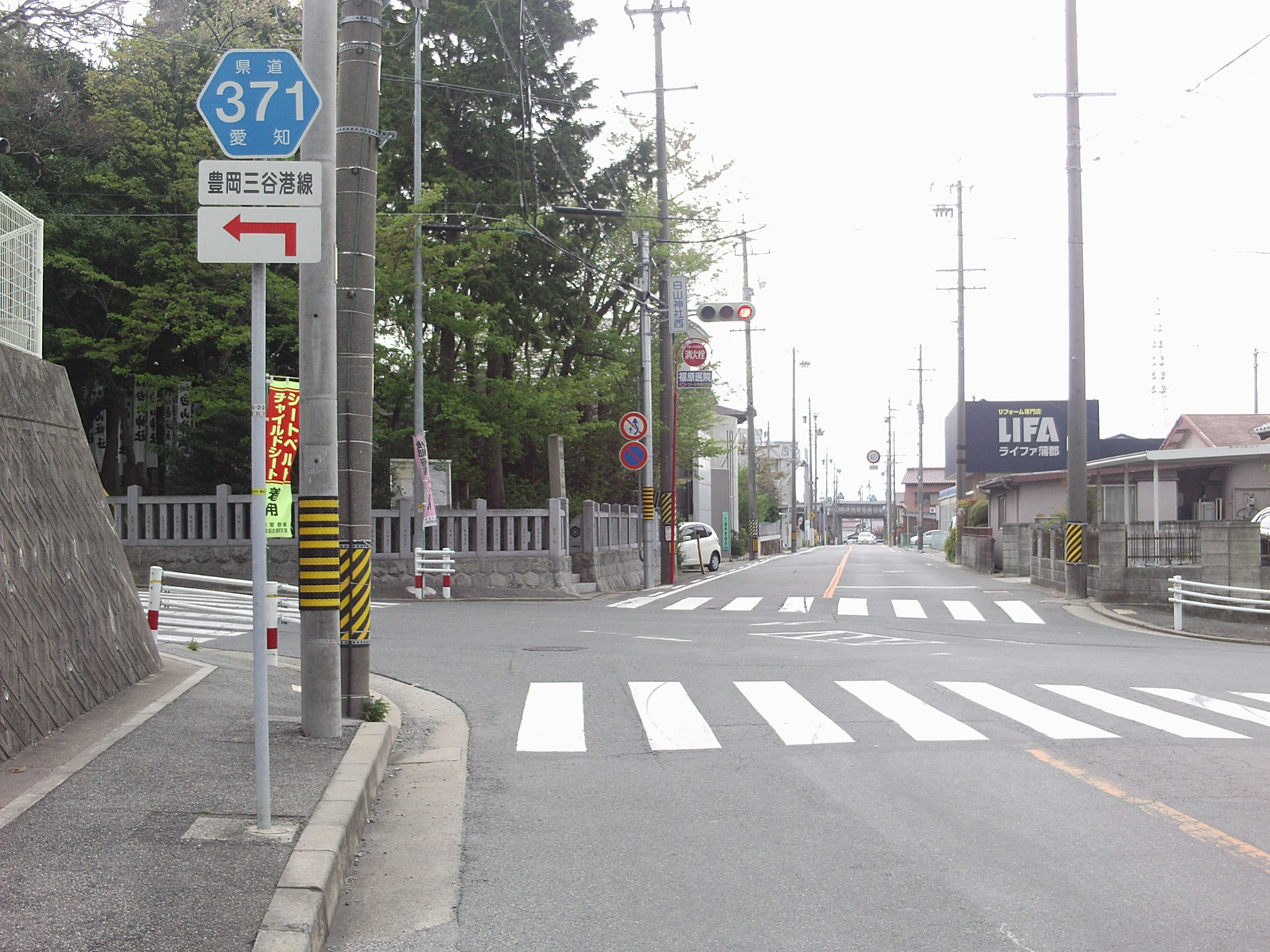 Aichi prefectural road No.371 in Toyookacho, Gamagori, Aichi.